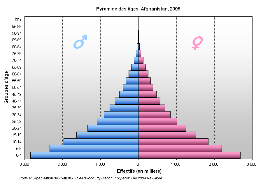 Pyramide des âges - Afghanistan (2005) / Population pyramid - Afghanistan (2005) Source des données : Organisation des Nations Unies (World Population Prospects: The 2004 Revision) / Data source: United Nations (World Population Prospects: The 2004 Revision) Graphique créé par User:fargomeD / Graph created by User:fargomeD